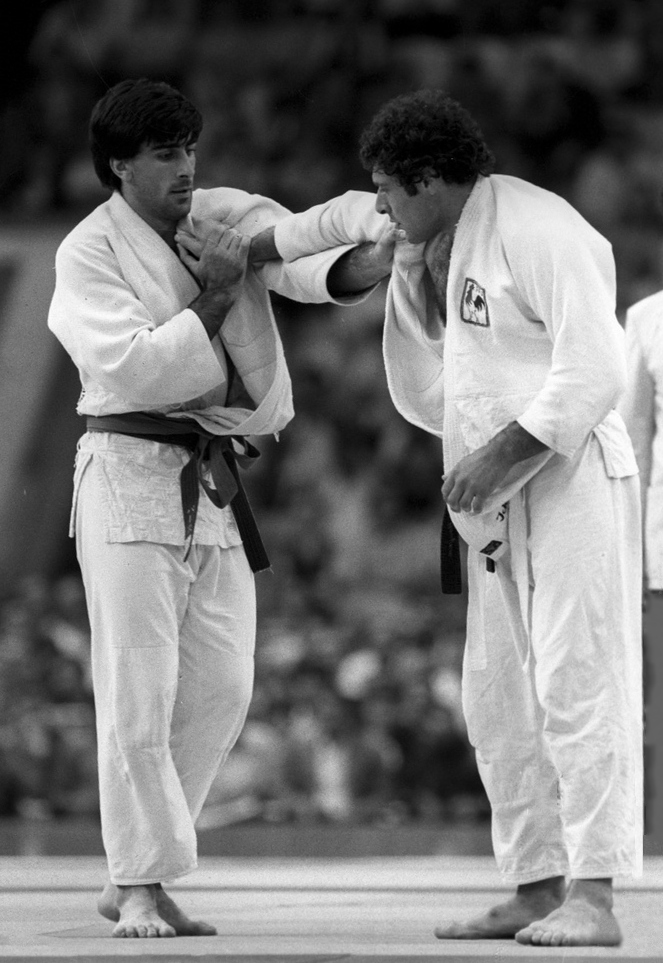 “Judoists Bernard Tchoullouyan and Ignacio Sanza during their match”. A Judo match (78 kg weight category). Bronze medal winner of the 1980 Summer Olympics Bernard Tchoullouyan (right) of France and Ignacio Sanza of Spain. XXII Summer Olympics. Central Lenin Stadium (now Luzhniki Stadium) in Moscow.